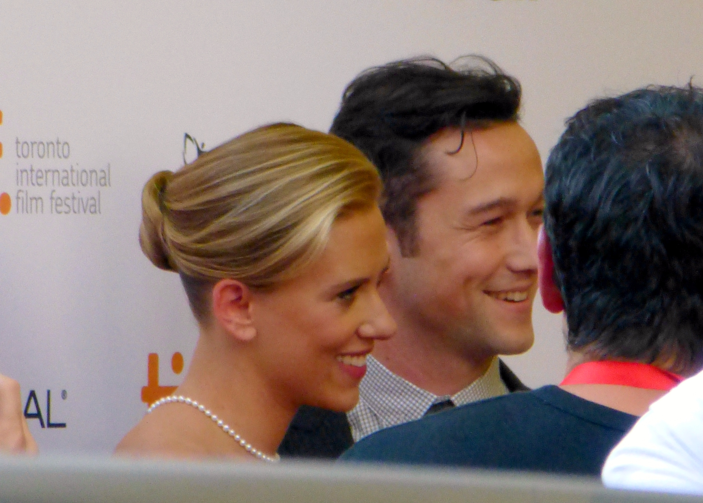 Scarlett Johansson and Joseph Gordon Levitt at the Premiere of Don Jon, 2013 Toronto Film Festival